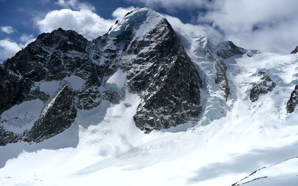 Nesthorn north face